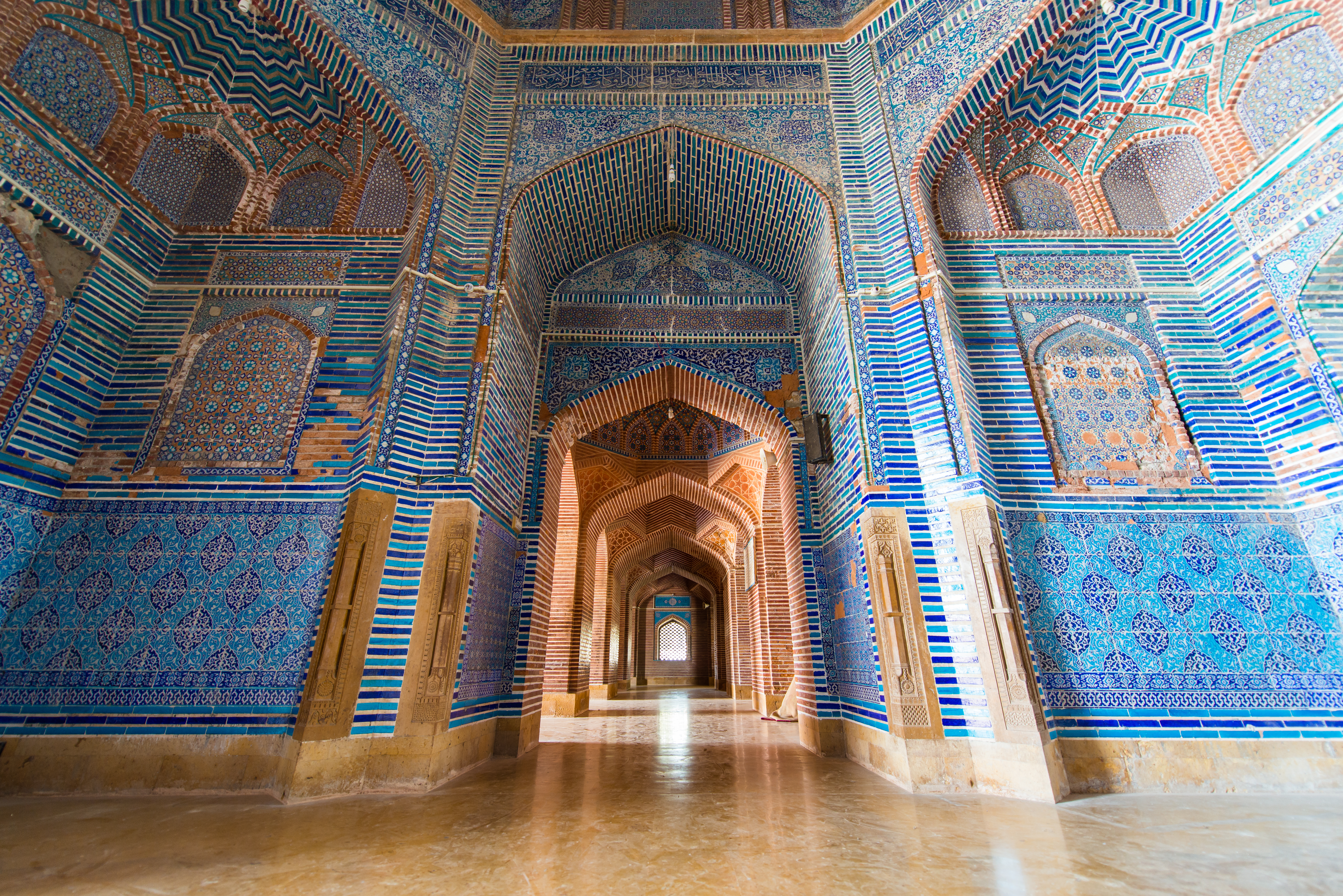 Shah Jahan Mosque, Thatta This is a photo of a monument in Pakistan identified as the SD-90